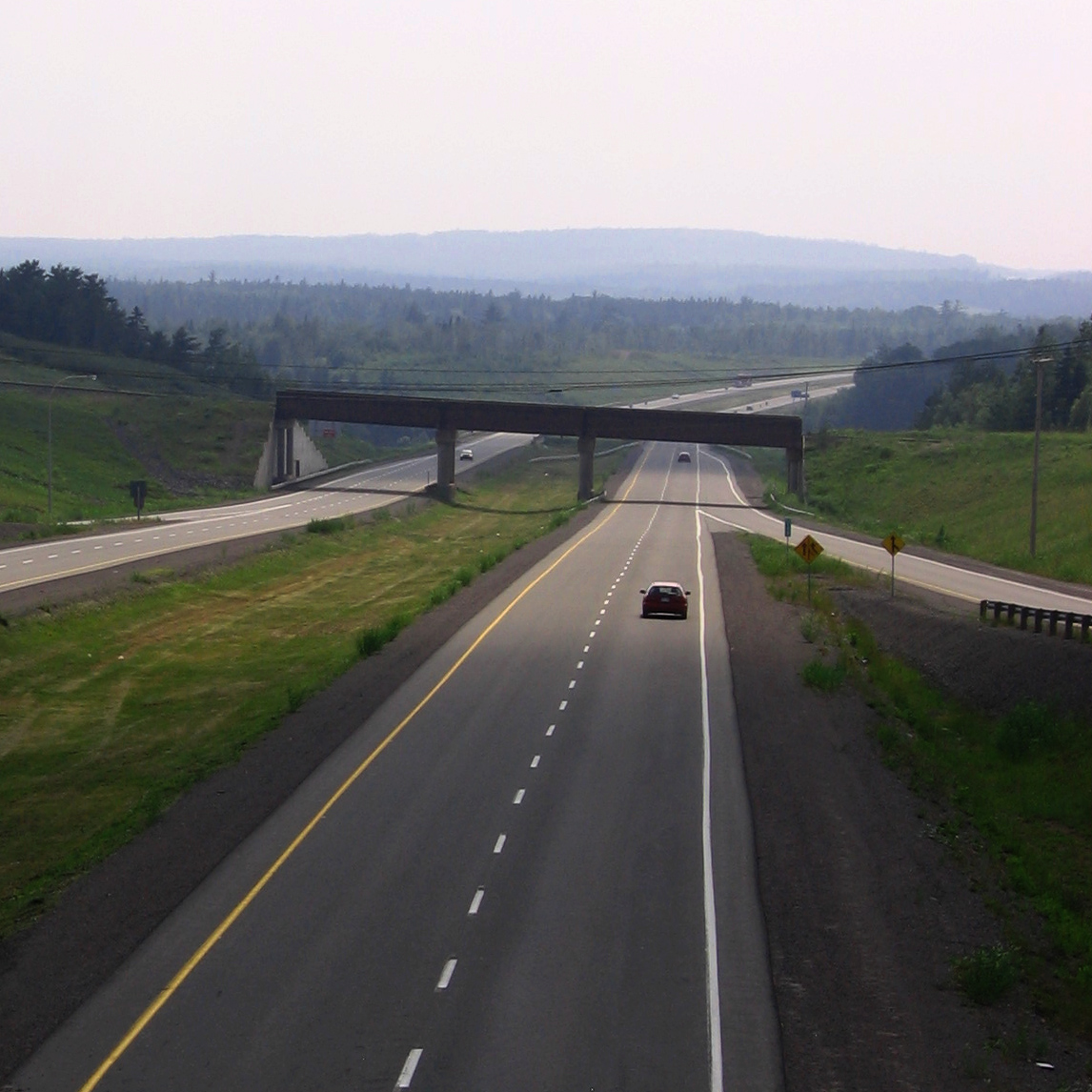 Photograph of provincial highway in Nova Scotia